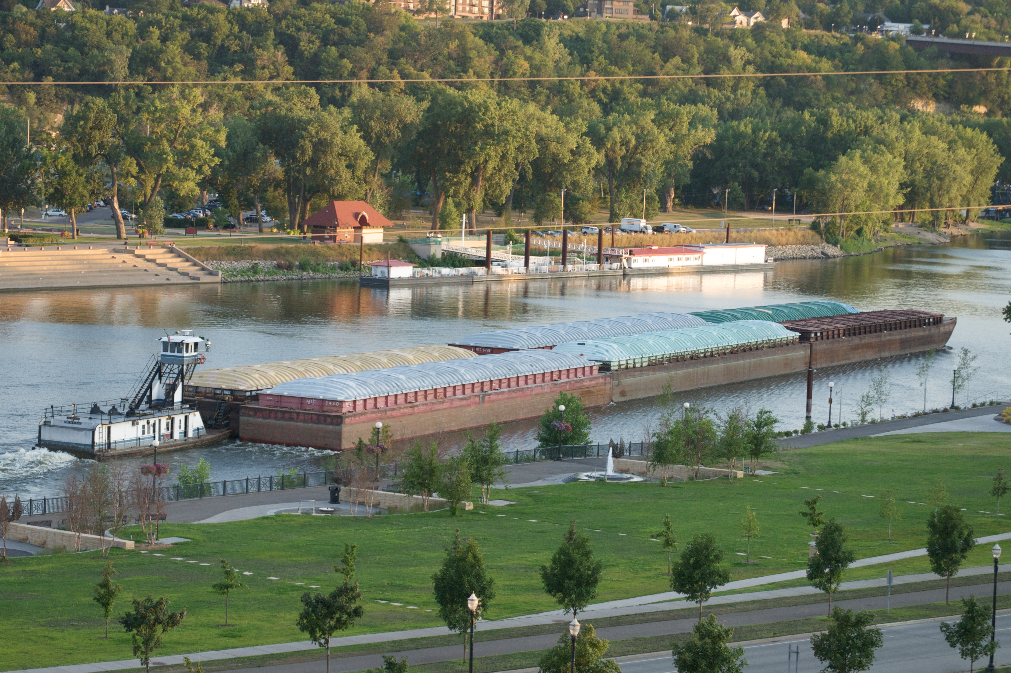 I snapped this photo while standing on an observation platform outside of the Science Museum of Minnesota.